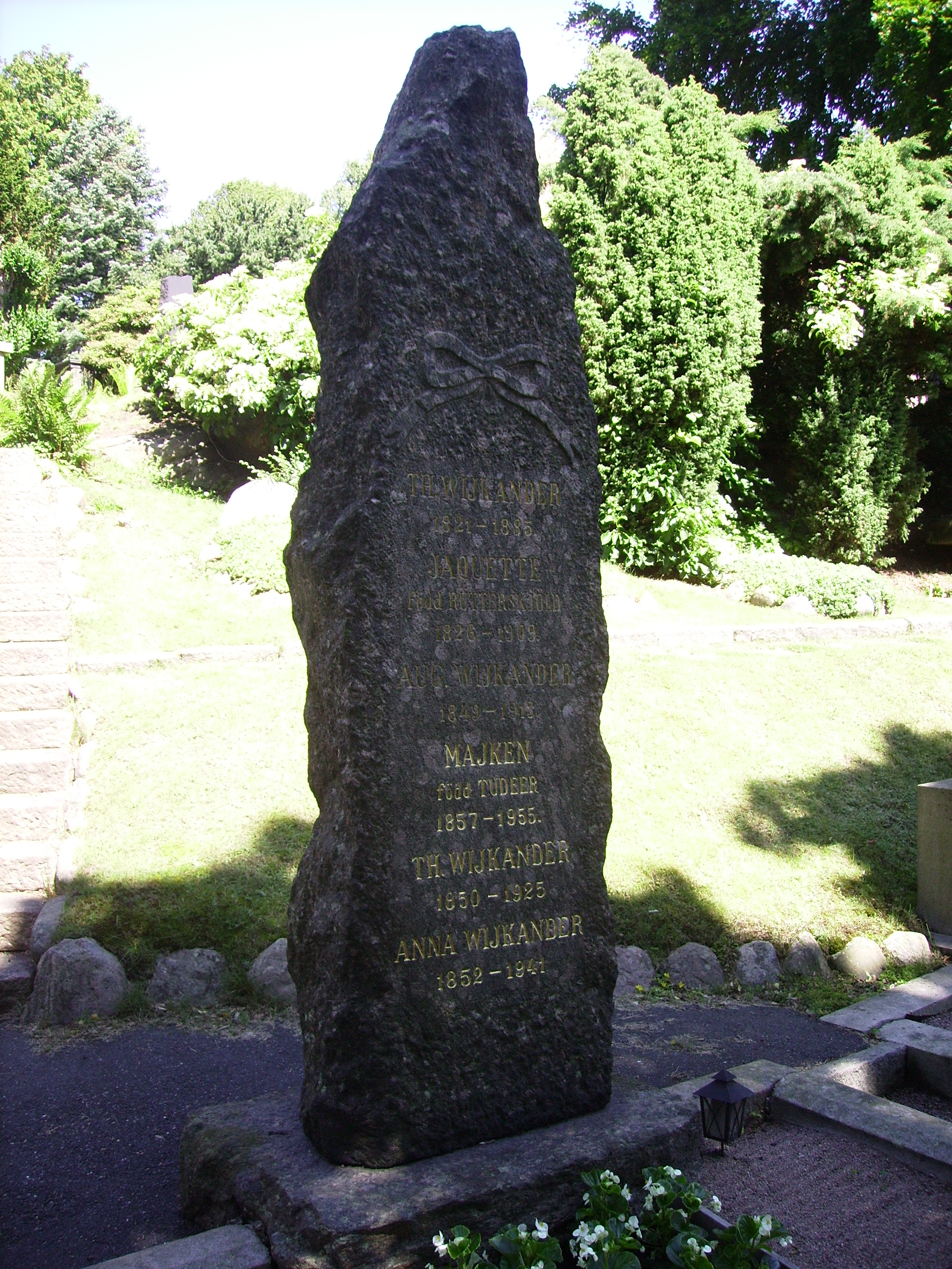 Picture of August Wijkander's grave at Östra kyrkogården in Gothenburg